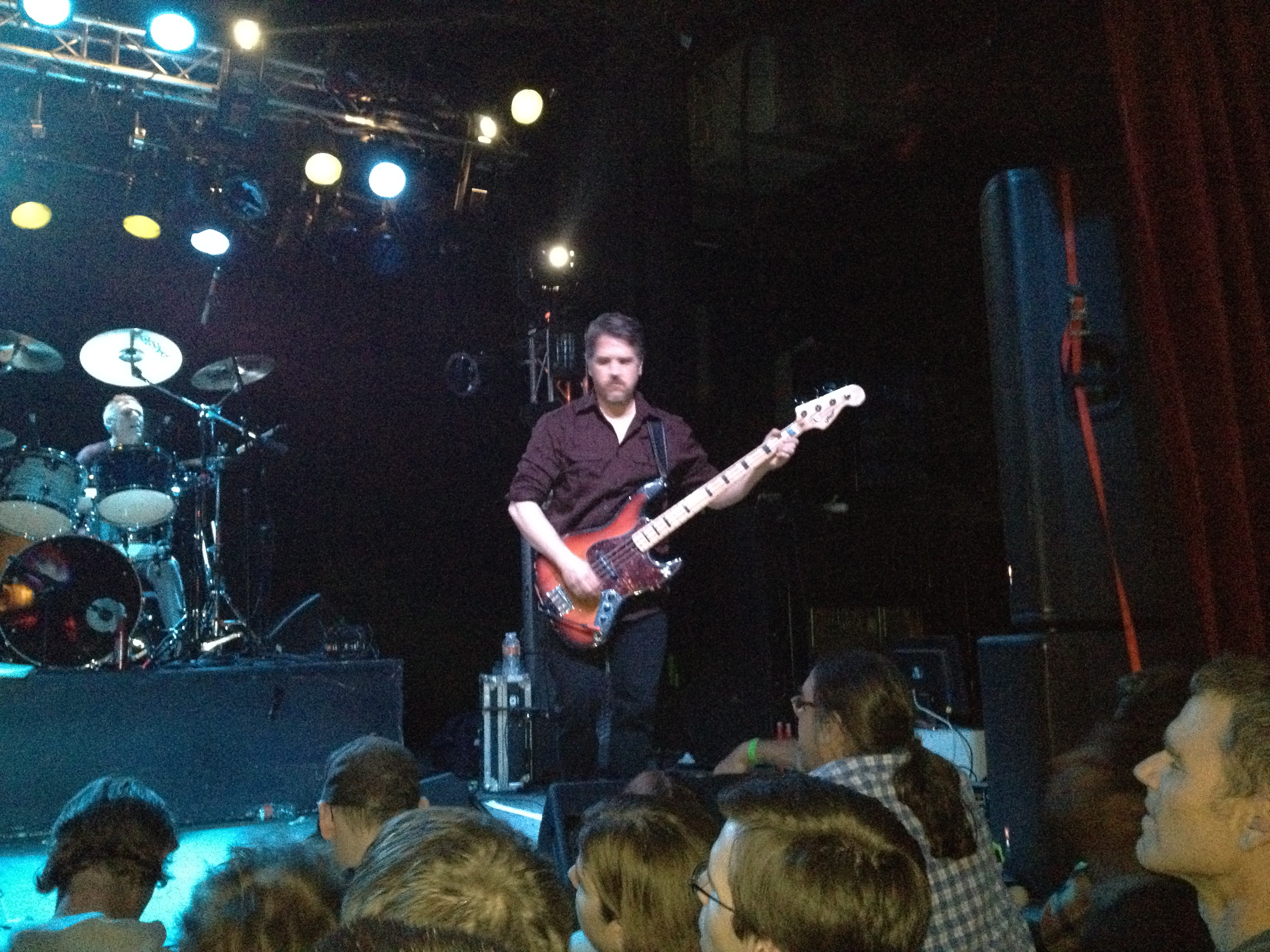 with Scratch Acid December 8, 2011 at Trees.